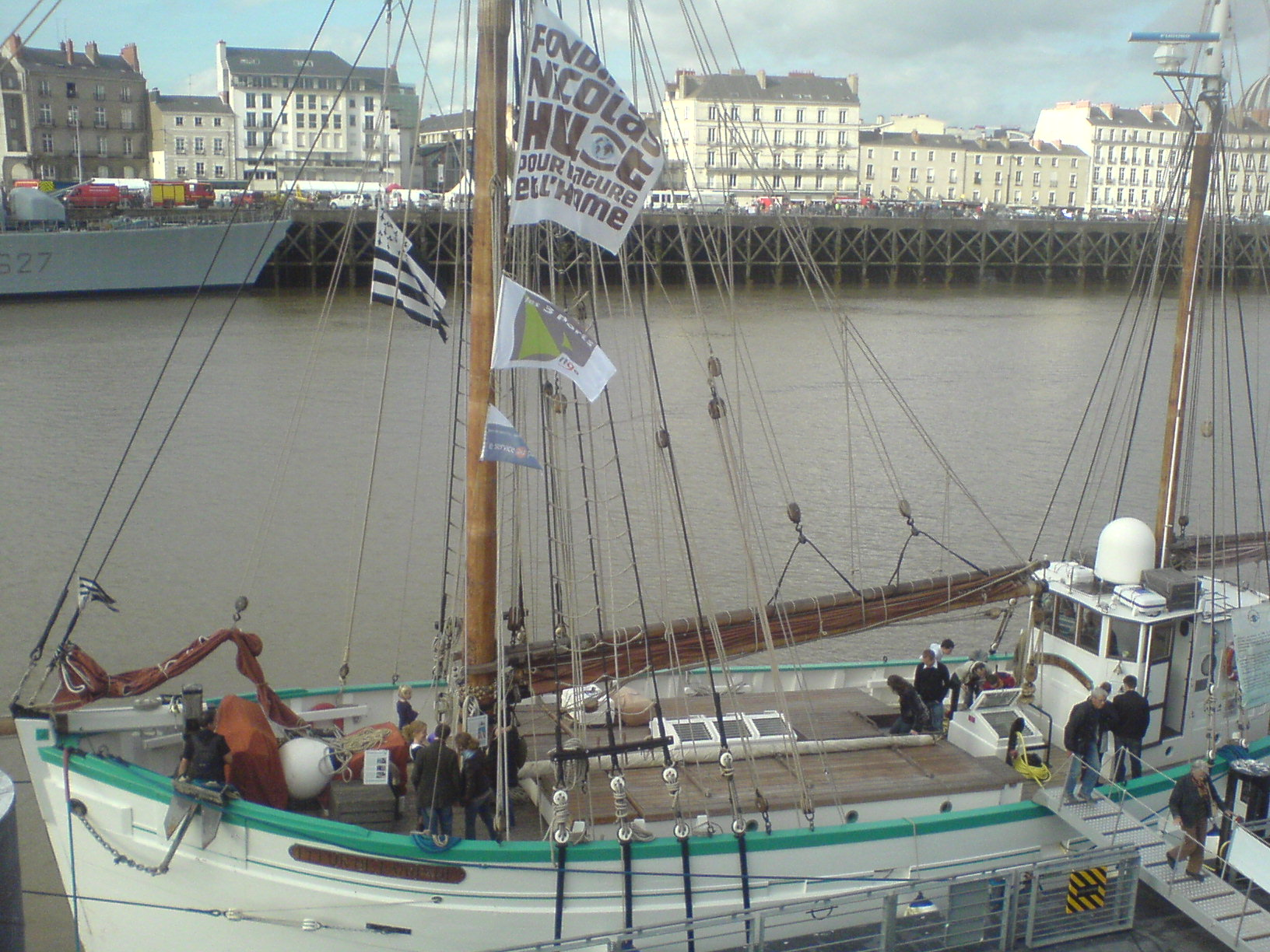 The sailboat "Fleur de Lampaul" (Nicolas Hulot Foundation), in Nantes for the the depart of the new ship's race "Solidaire du Chocolat" in october 2009.